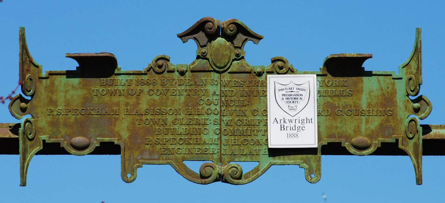 Sign on historic Arkwright Bridge, Cranston, Rhode Island (near the Coventry town line).